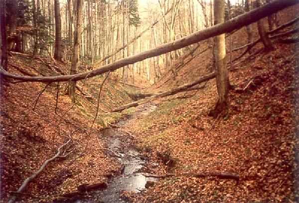 Stream in Beskid Niski (mountains in Poland)